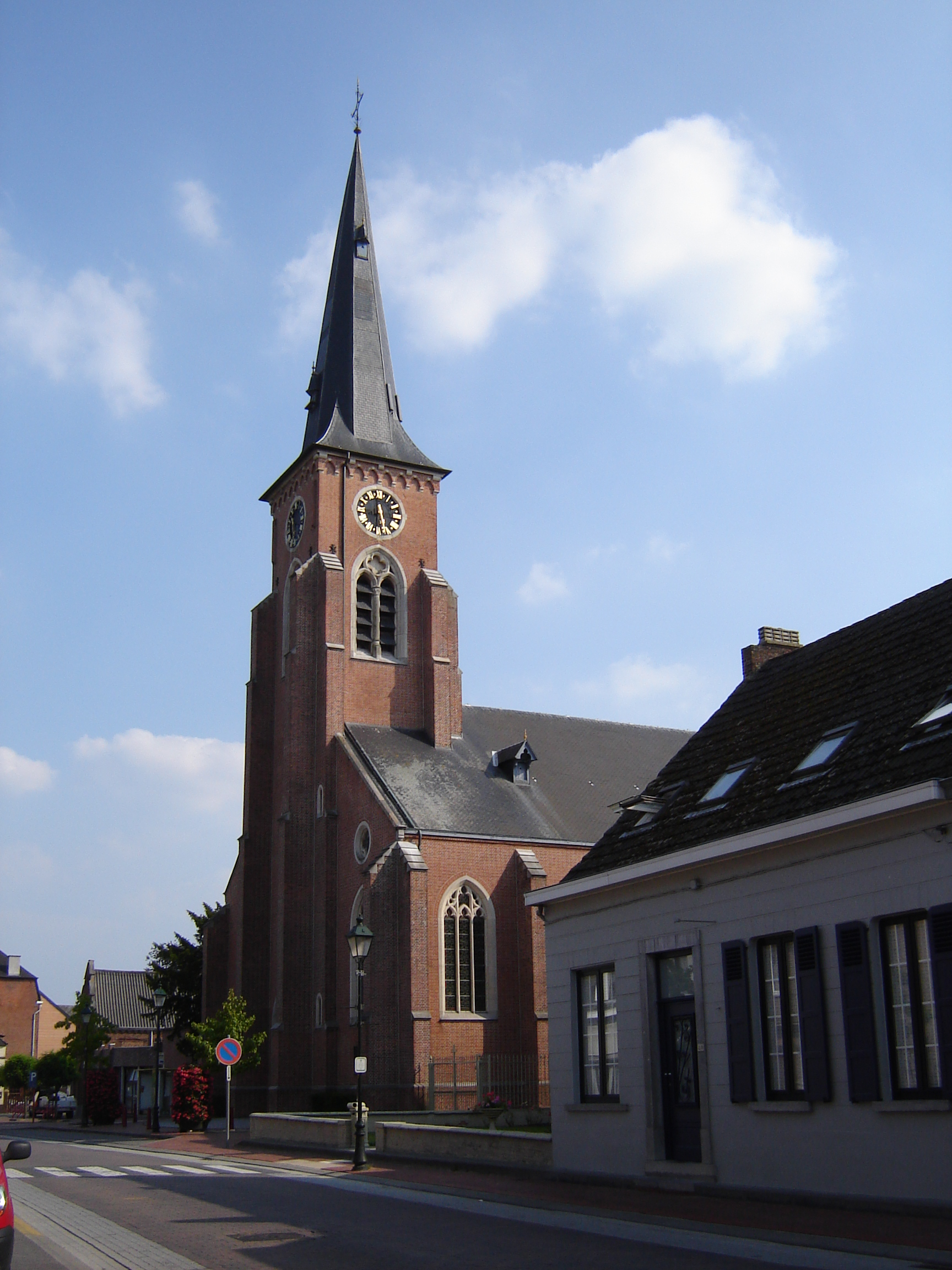 Church of Saint Gertrude in Wichelen. Wichelen, East Flanders, Belgium